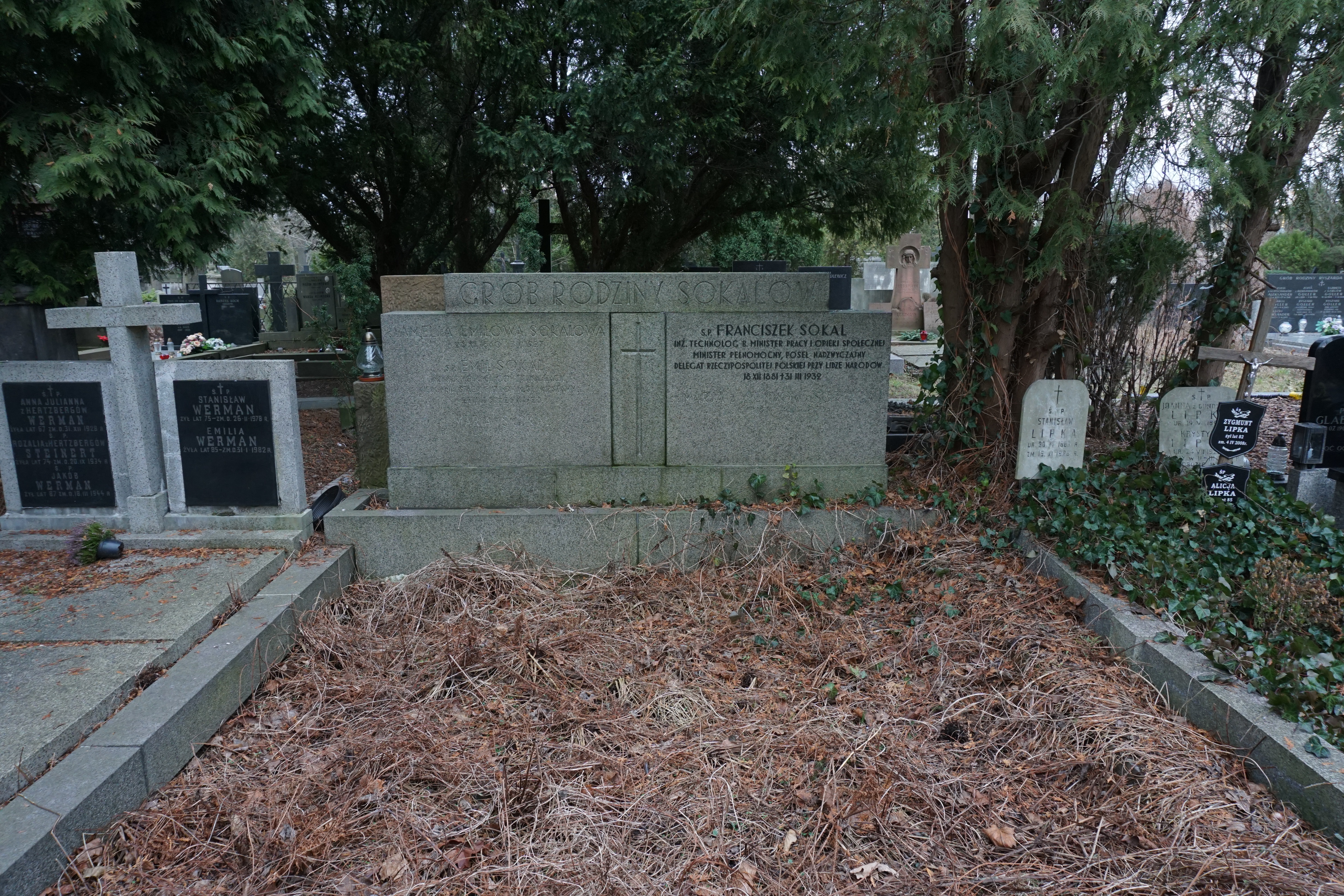 The grave of Emil Sokal at the Evangelical-Augsburg Cemetery in Warsaw (avenue 15, grave 18)